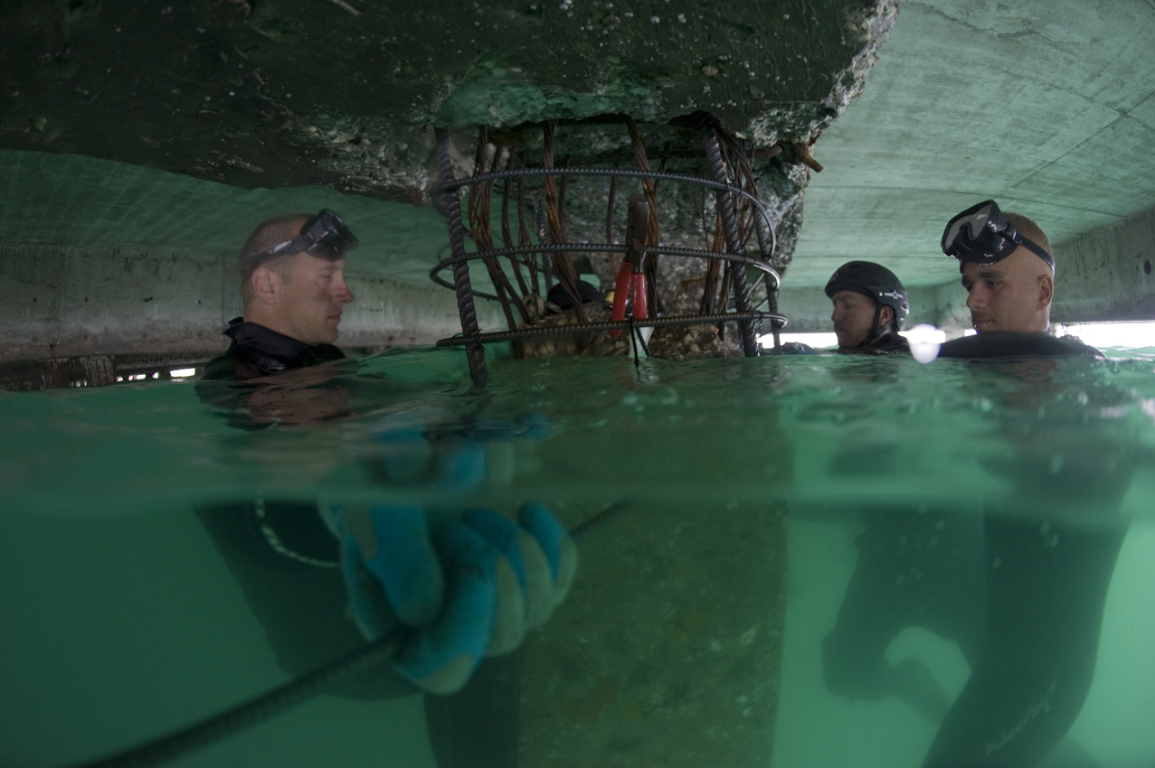 PORT-AU-PRINCE, HaitI (Feb. 8, 2010) Chief Equipment Operators Steve Eckroth, left, and Mark Hurley, right, both assigned to Underwater Construction Team (UCT) 1, and Army Diver Specialist Leslie Shiltz, assigned to the 544th Engineer Dive Team, wrap wire around adjoining pieces of re-enforcement bar used to strengthen sections of pier in Port-au-Prince, Haiti, damaged by a 7.0 earthquake Jan. 12. UCT-1 and the 544th are repairing damaged sections of concrete pilings in support of Operation Unified Response. (U.S. Navy photo by Mass Communication Specialist 2nd Class Chris Lussier/Released)